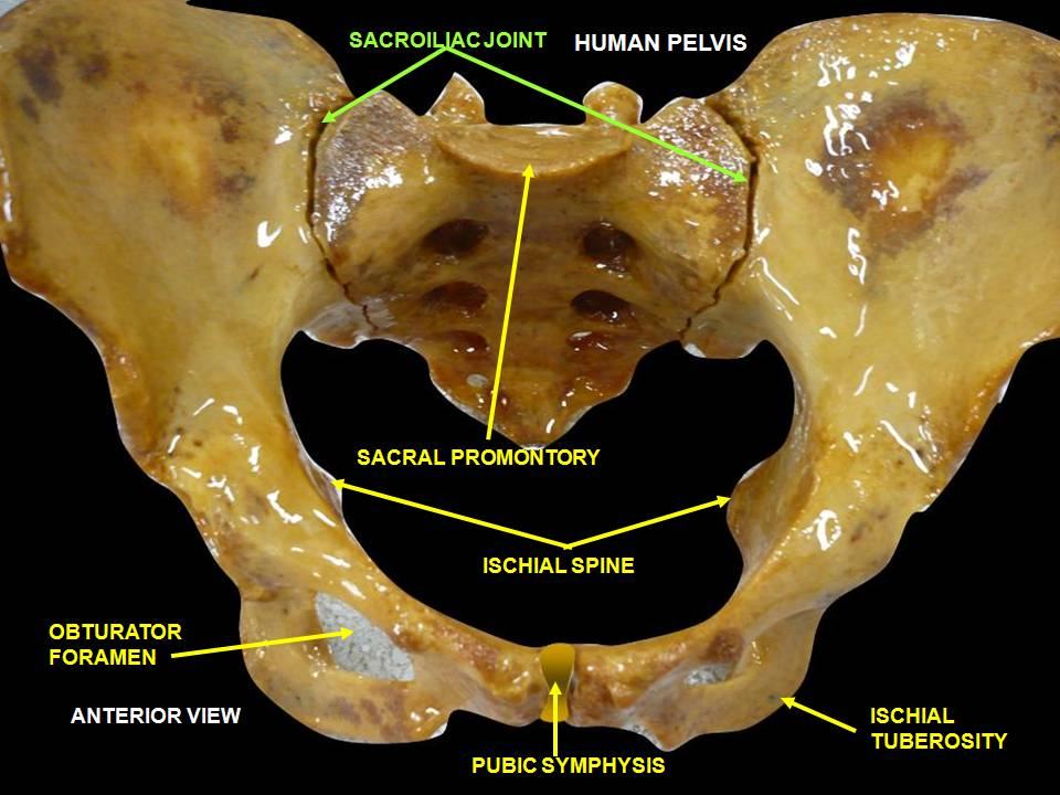 Anatomical dissections